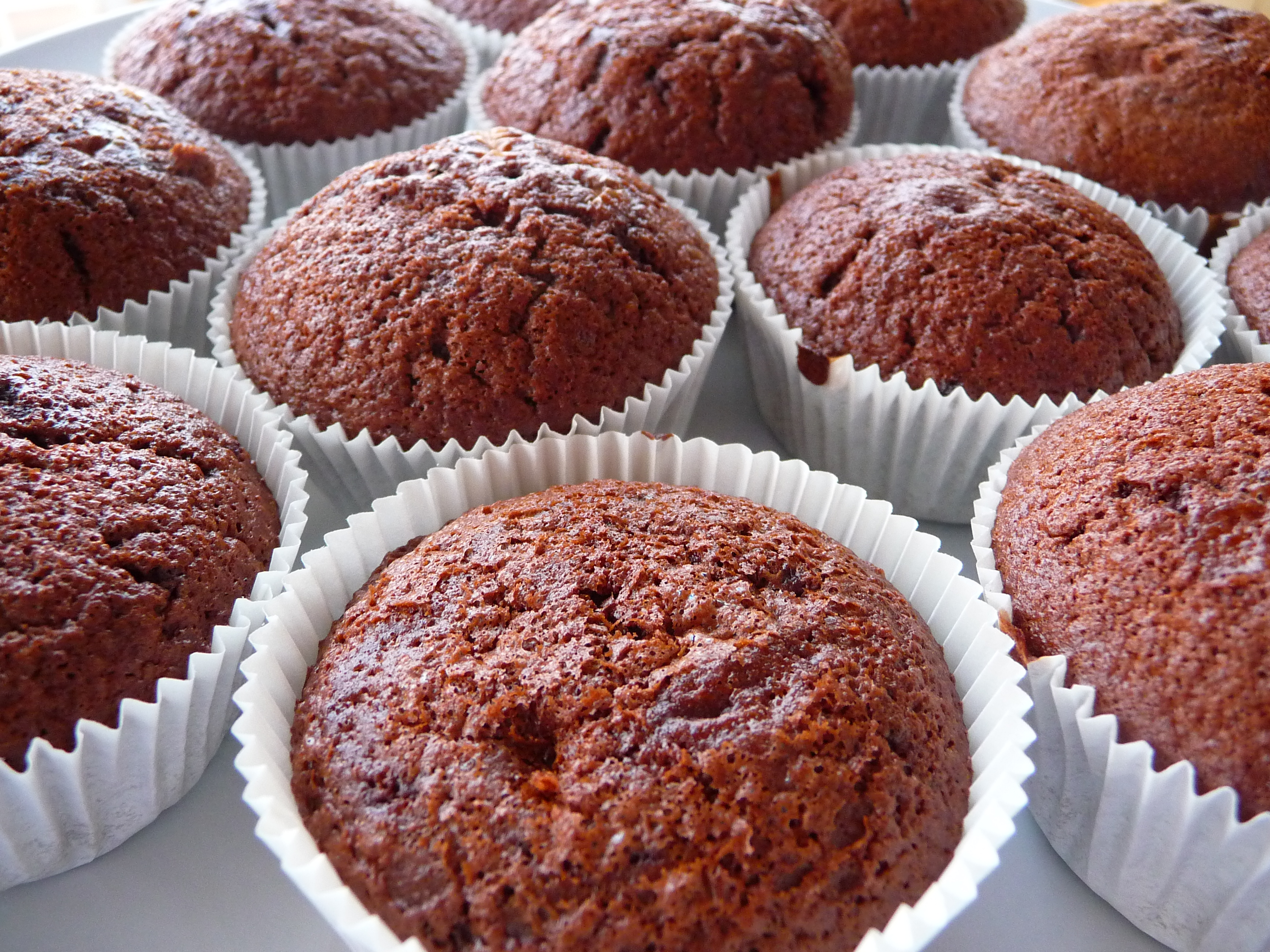 Muffins with cocoa and chocolate.